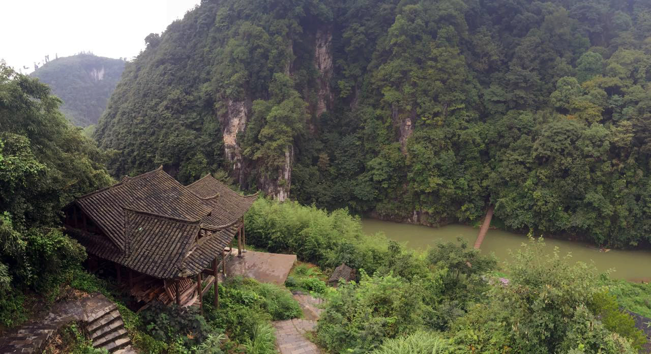 Xinzhai, Zhengda